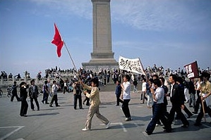 China 1989, Student riot at Tienanmen Square, photo by Jiri Tondl